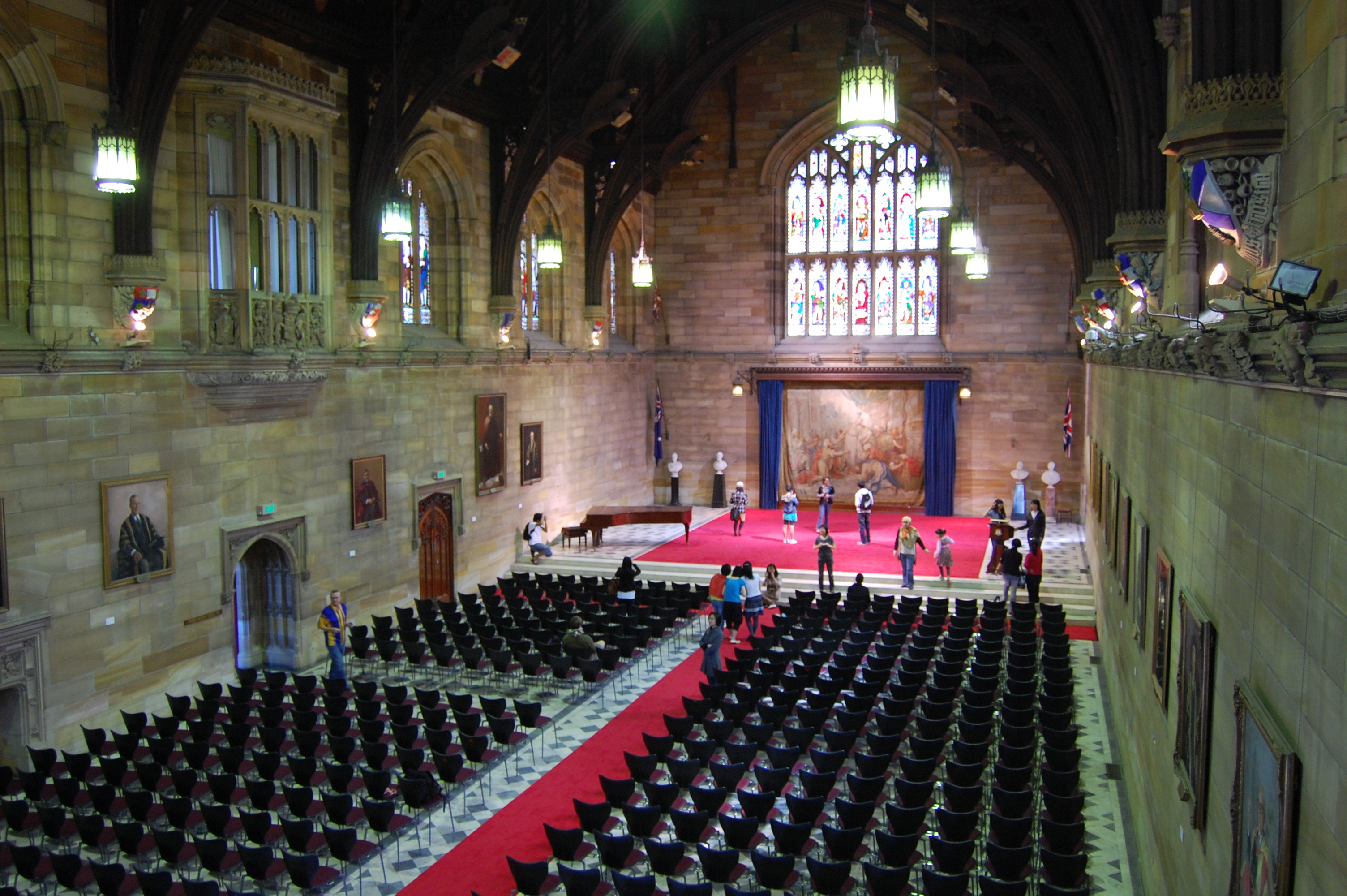 Inside the Great Hall at the University of Sydney